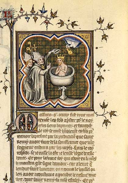 miniature from "Grandes Chroniques de France de Charles V".